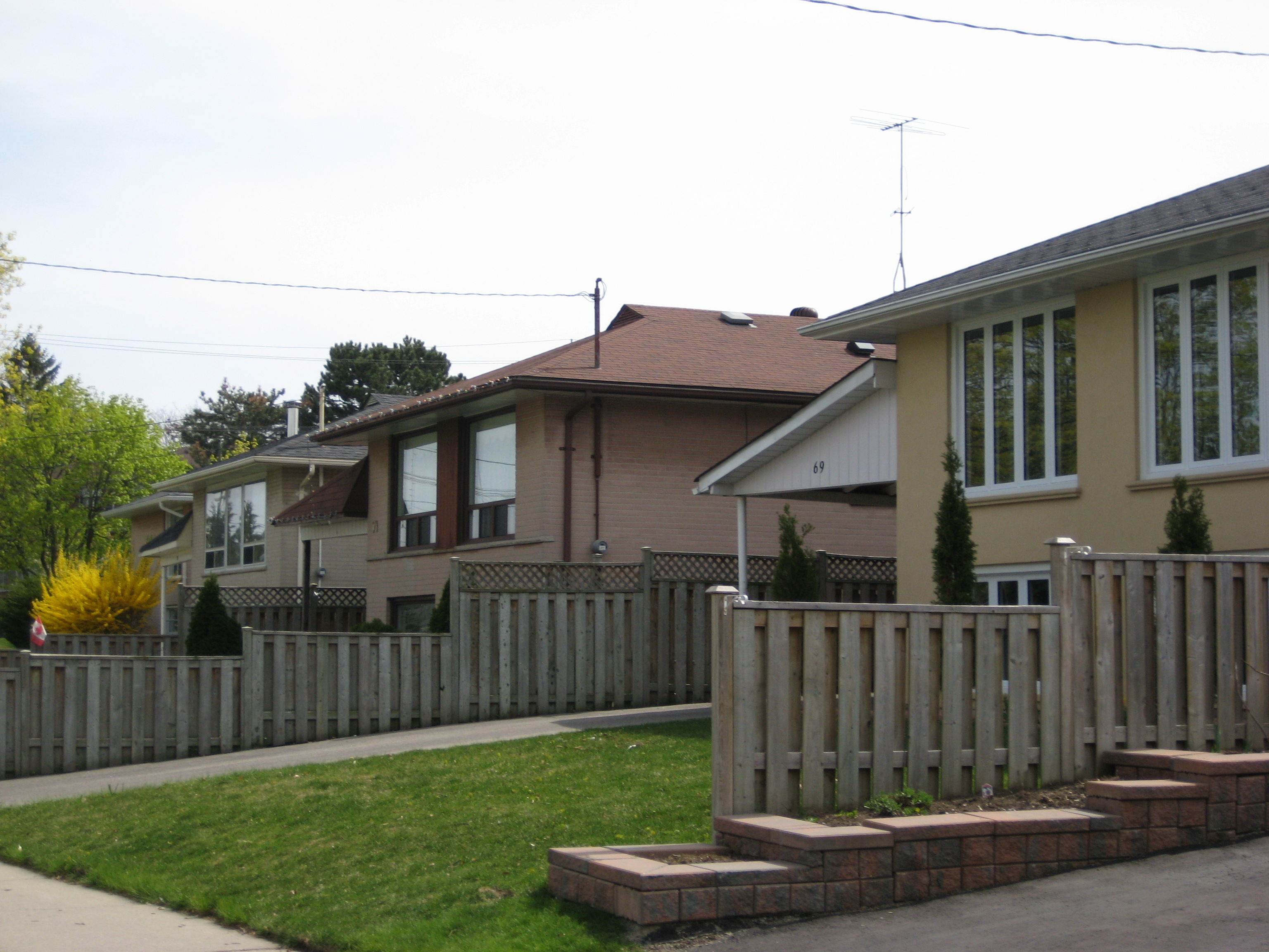 Thistletown houses